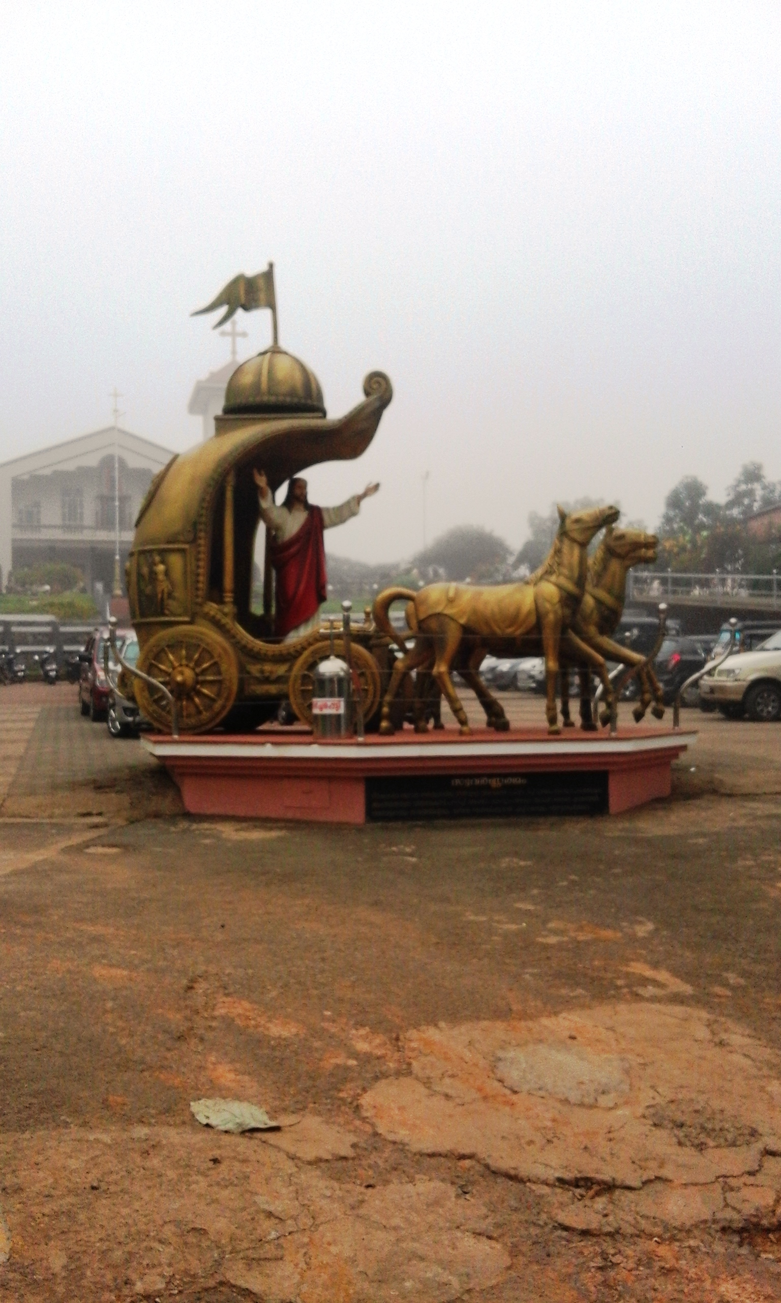 Wayanad District, Kerala province, India